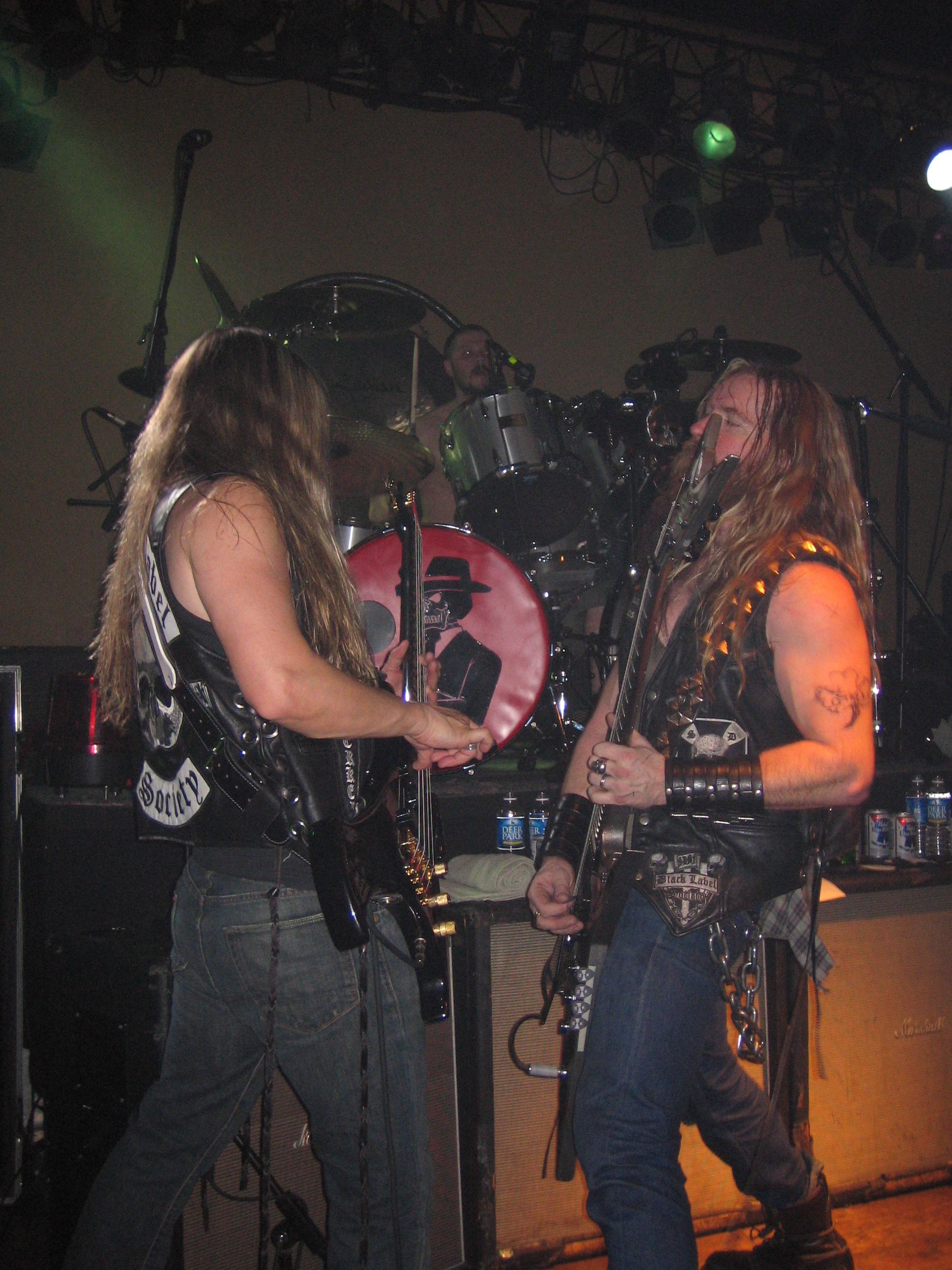 Black Label Society live at Jaxx Nightclub in Springfield, VA